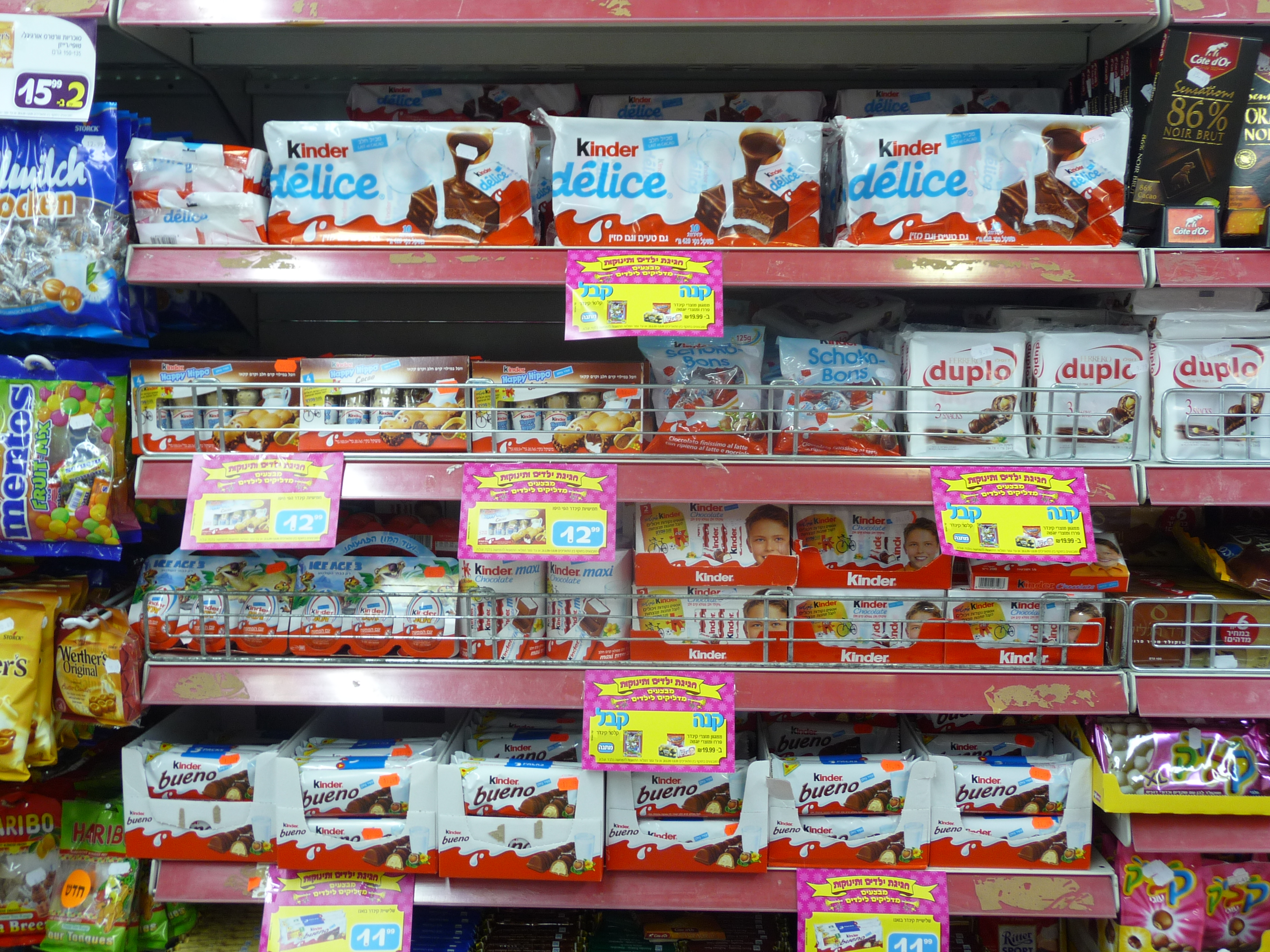 Kinder products at the supermarket, Israel